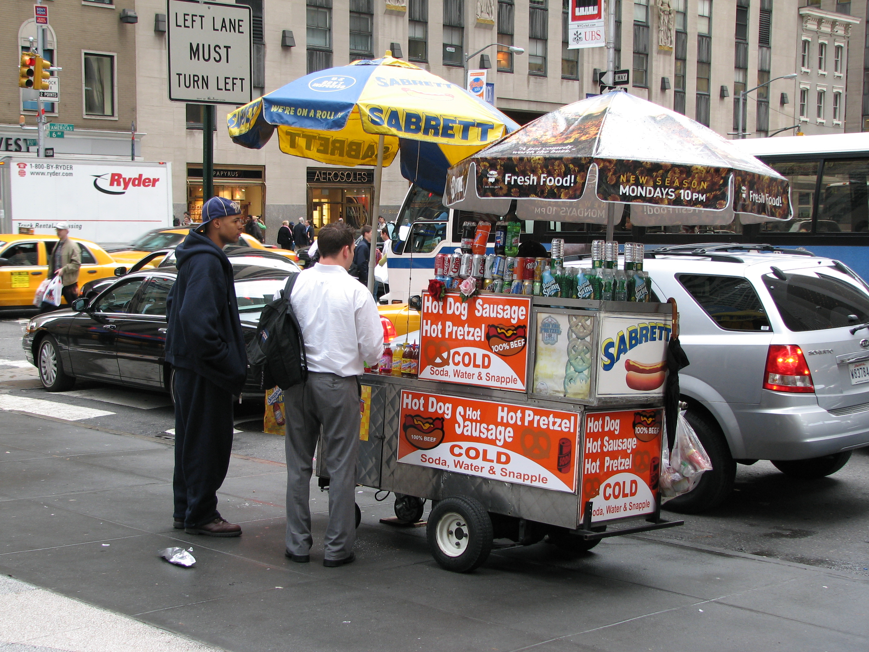 Street food vendor in New York City, at the Time-Life Building (50th at 6th Ave)